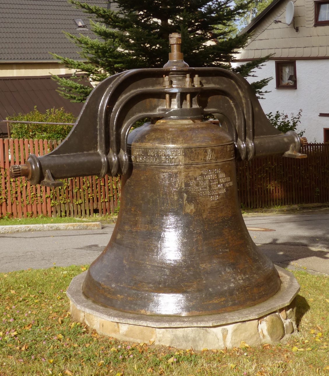 The old cast-iron clock, 1949 cast, replaced in 2010 during the Scheibenberg church renovation, Saxony.